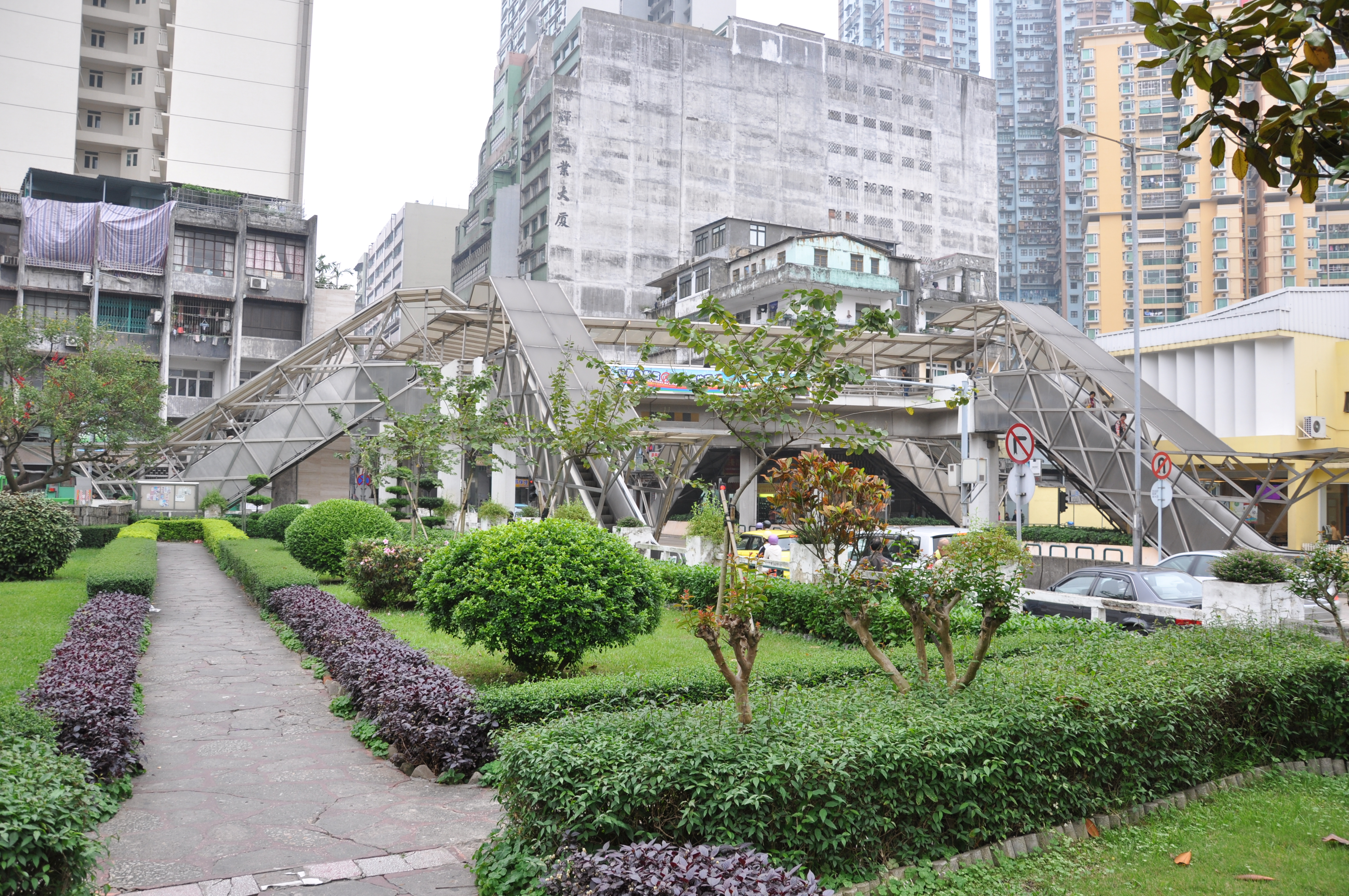 The flyover where the shooting happened at Macau's 2007 Mayday Demonstration